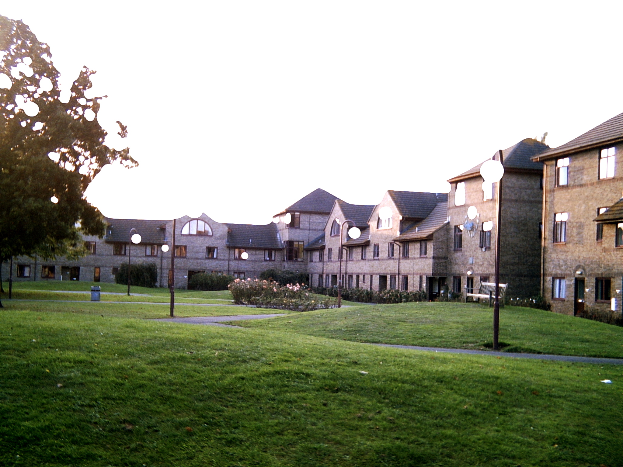 Darwin Houses, at the University of Kent. I took this photo.